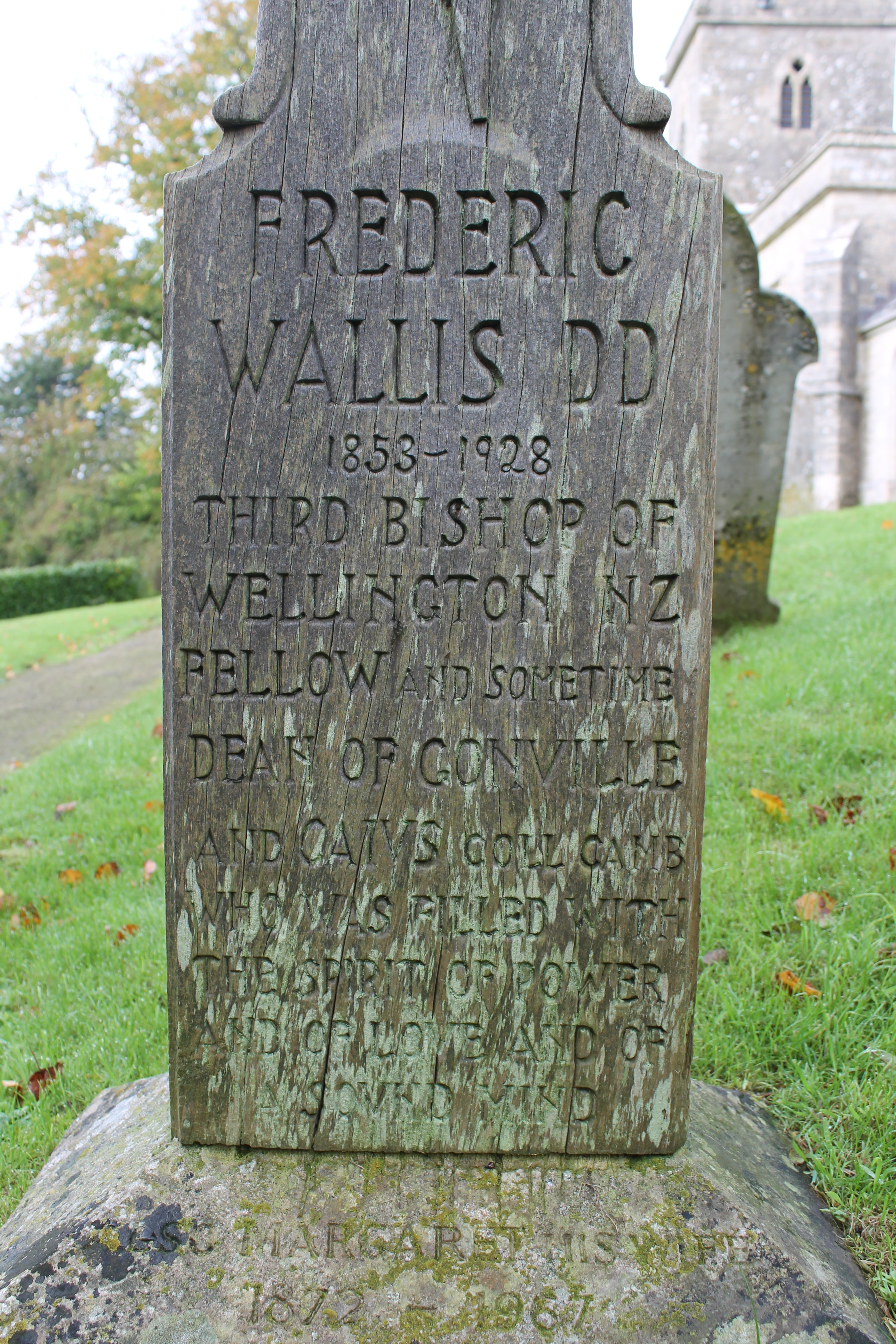 A wooden memorial in the churchyard of St Michael & All Angels, Little Bredy, Dorset. The inscription reads: FREDERIC WALLIS DD 1853-1928 THIRD BISHOP OF WELLINGTON NZ FELLOW AND SOMETIME DEAN OF GONVILLE AND CAIUS COLL CAMB WHO WAS FILLED WITH THE SPIRIT OF POWER AND OF LOVE AND OF A SOUND MIND.